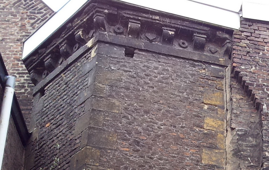 Maastricht, the Netherlands. Detail of a hexagonal tower at the back of Bouillonstraat 12, as seen from the courtyard of nr. 10.